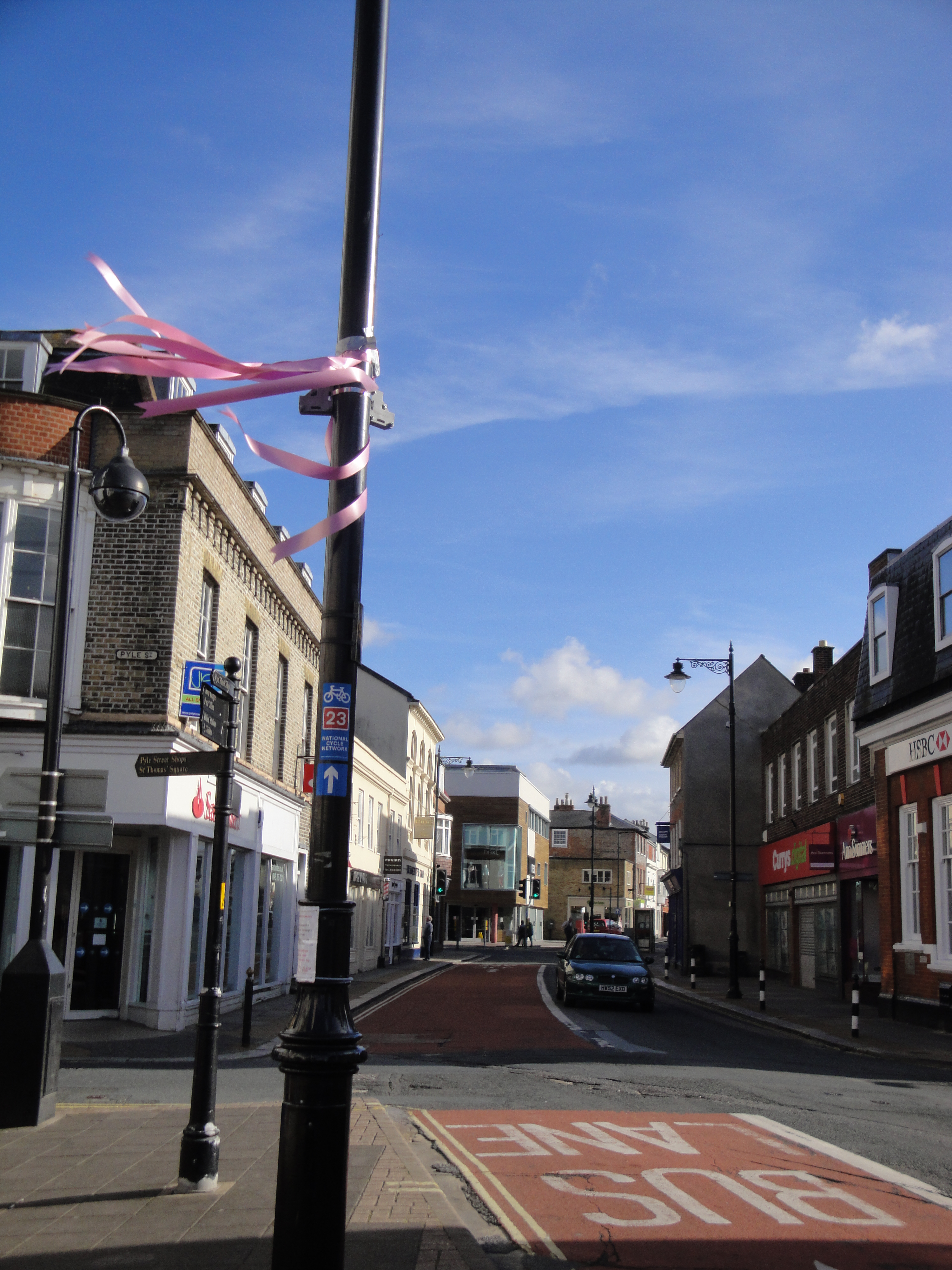 "Isle of Pink" campaign ribbons, seen in St James Square, Newport, Isle of Wight. Isle of Pink is a campaign run on the Island to increase awareness of breast cancer.